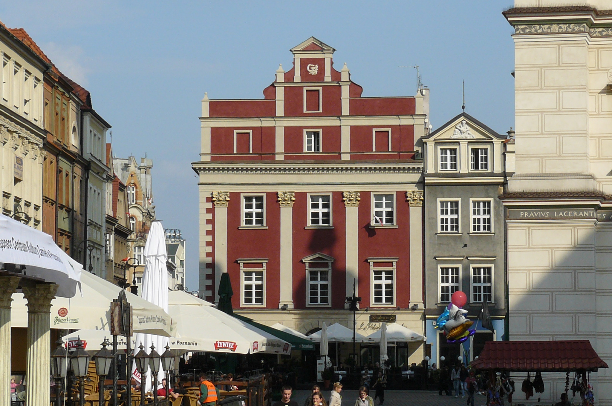 Red House, Poznan, Old Market.